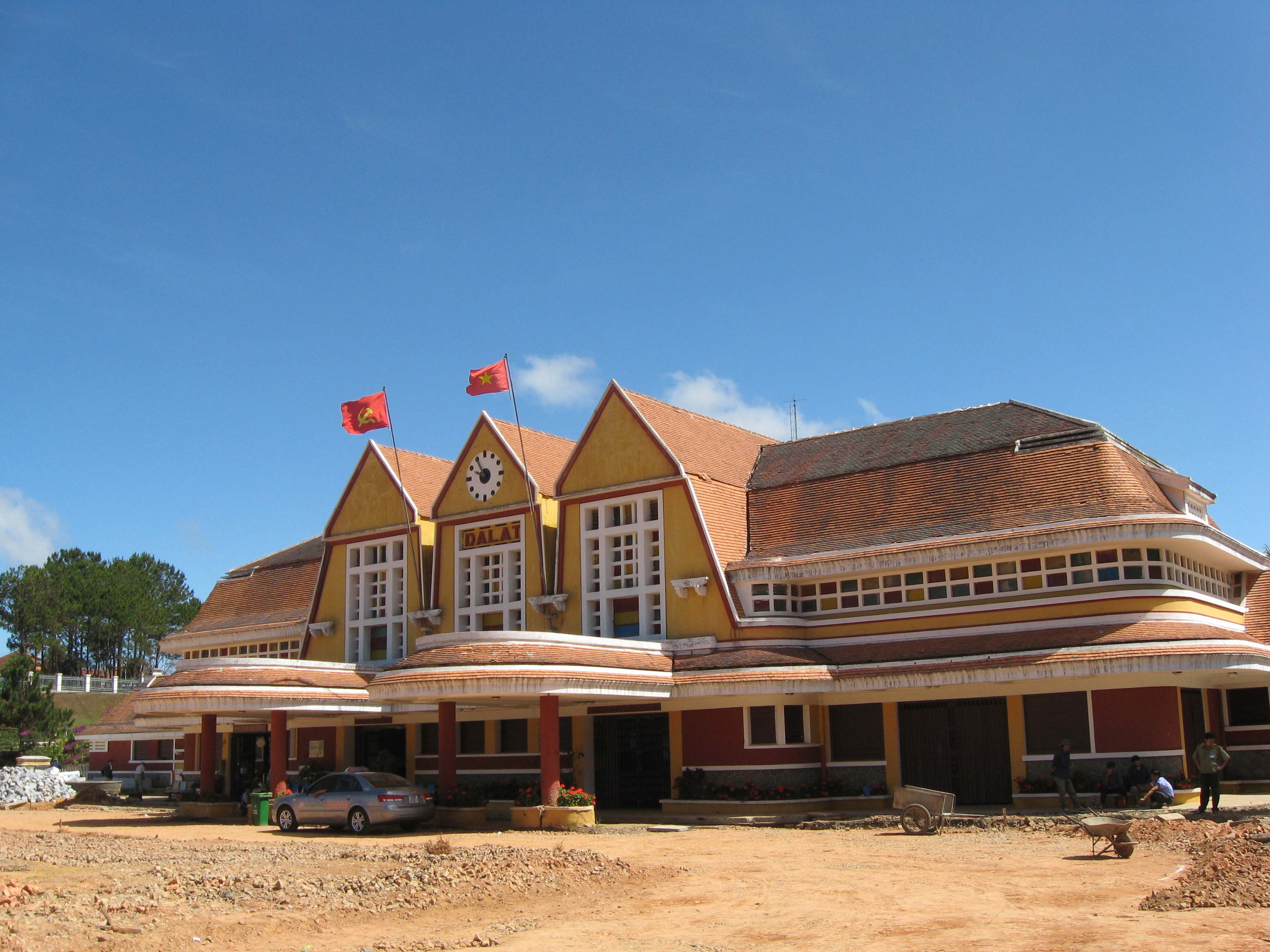 Da Lat Railway Station, Vietnam.